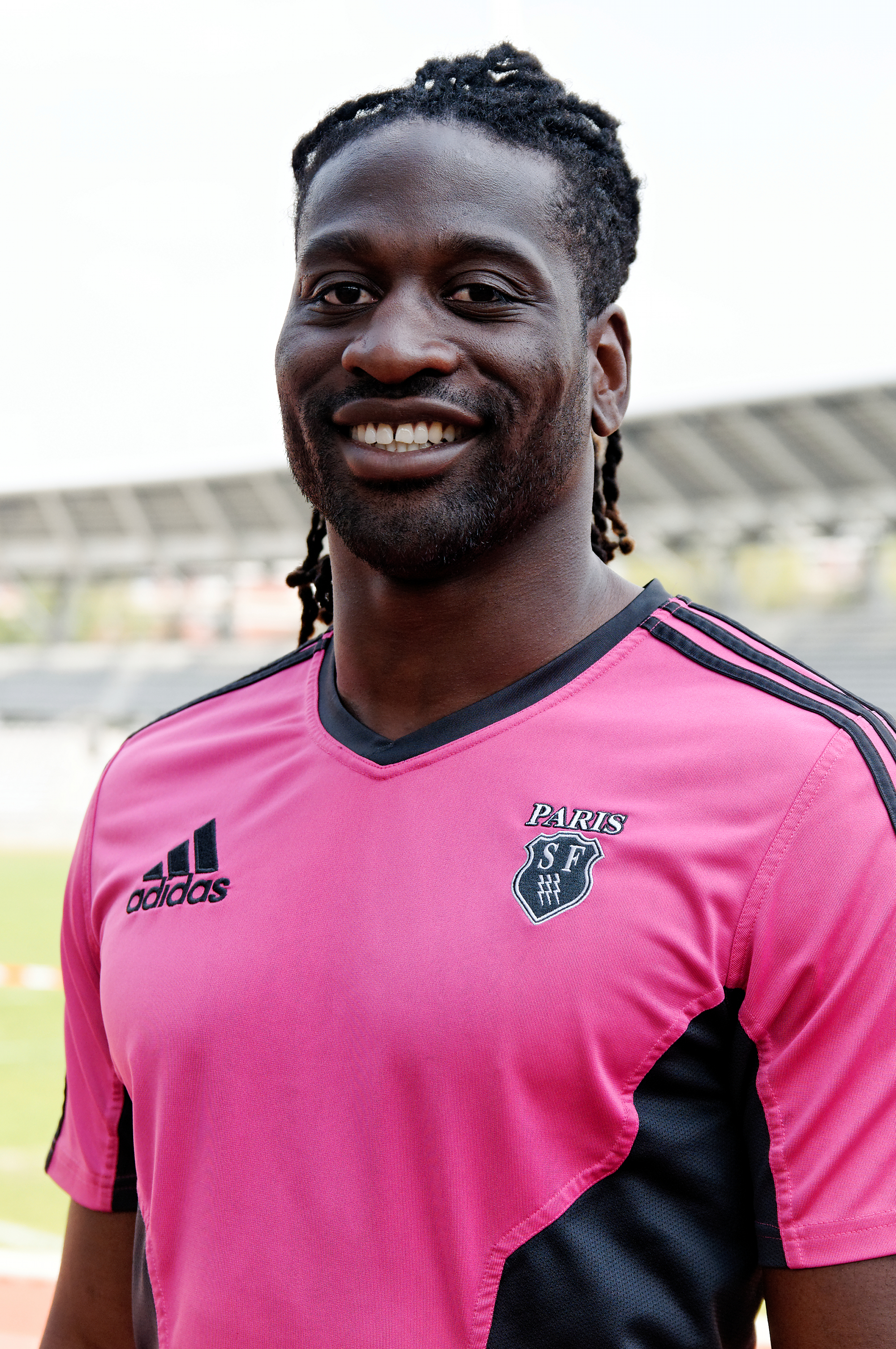 Paul Sackey during the Stade Français training session held at Stade Charléty, Paris on 3 April 2012.